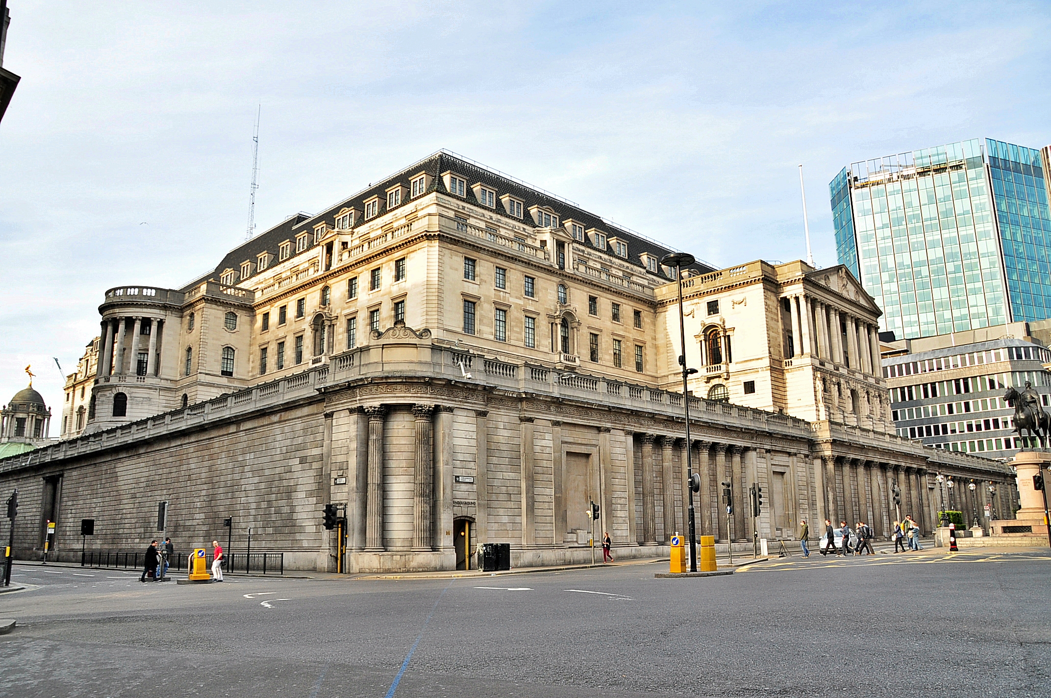 Bank of England, Threadneedle Street, London, England.